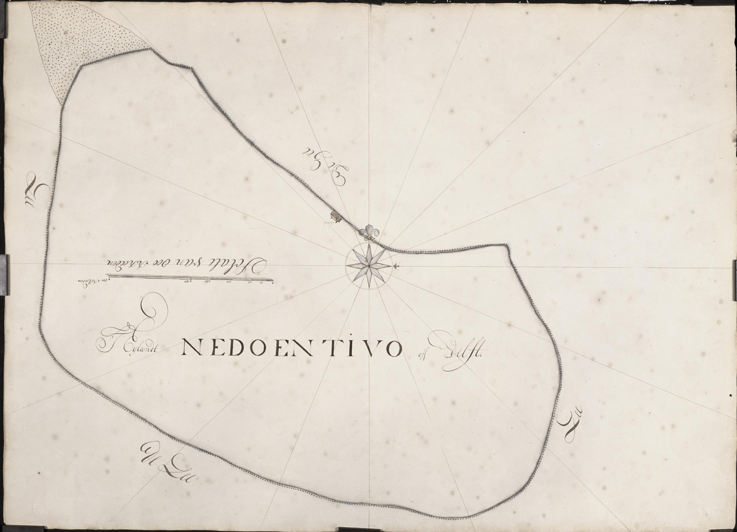 Title in the Leupe Catalogue (NA): "Generaale beschrijvingh der landpaalen gelegen en sortabel onder het gebiet van d'Ed. O.I.C. in den omtrek van het geheel mitsgaders wijduijtstreckent eijlant Ceijlon bestaande in een en dartig stux soo generale als speciaale landtcaarten", bevattende een "generale lantcaarte van het geheele eijlant Ceijlon", een "generale lantcaarte van het geheel commandement Jaffanapatnam", een "generale lantcaarte" van de Jaffanapatnamsche vier provincieen, en 28 speciale kaarten. Note in the Leupe Catalogue: Dewelke hooggevenereerde ordre van den Wel Edelen Achtbaren Heere Mr. Isaac Augustin Rumpf, Raad extraordinair van Nederlants India gouverneur en directeur des opgemelden eijlants Ceijlon enz. met den resorte van dien, door d' ondervolgende persoonen met veele moeijte en diligentie na voorgaande exacte meetinge ser accuratelijk sijn opgemaakt en welgemelde Sijn Edele overgegeven geworden, te weten: Johannes van Campen en Martinus Leusecam int Casteel Colombo den 20 October anno 1719 / Schenking Departement van Kolonieën, zie Verslag 1880, blz. 3 / Te vinden in Kol. aanwinsten no 206 / [added in pen:] Ie afd. aanw. 1892 32A en 32B, Aanwinsten 598-599, zie p. 63a-63b voor inhoudsopgave. Notes on reverse: 't Eijland Nedoentivo of Delft.